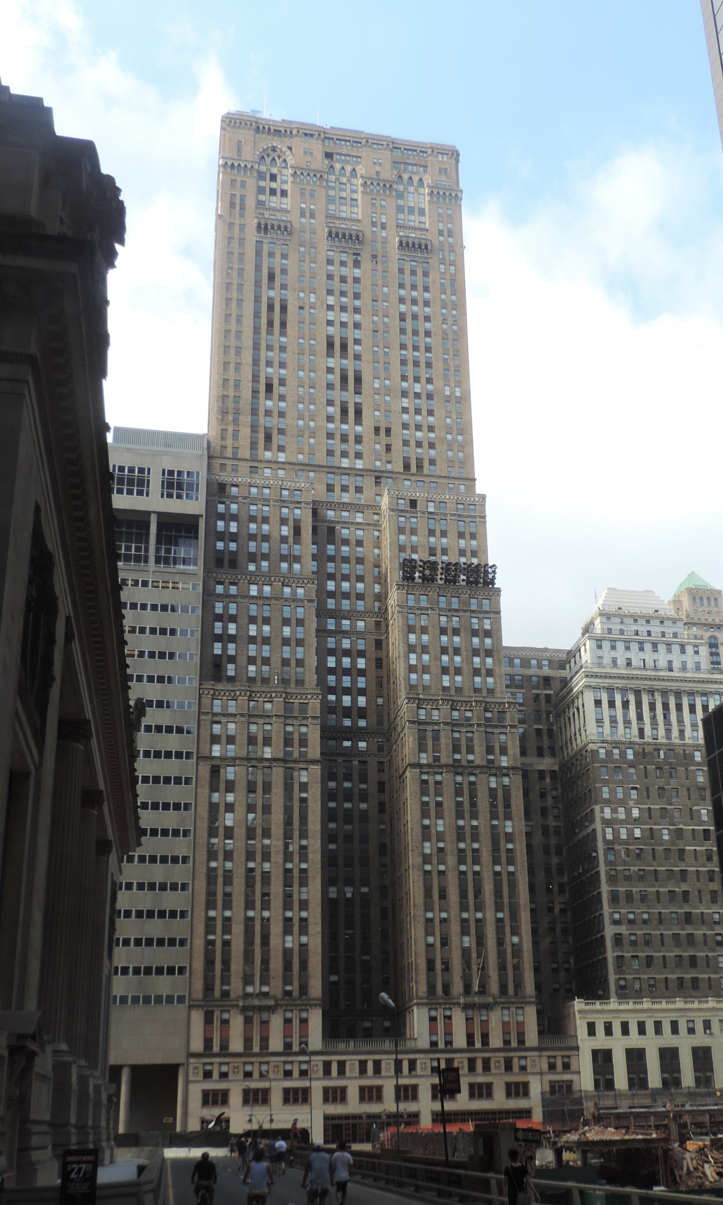 Looking south from viaduct at former Lincoln Building on a mostly sunny morning.